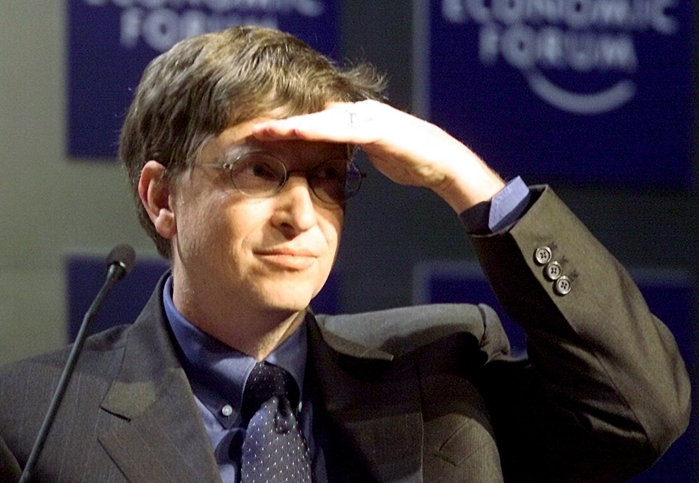 DAVOS/SWITZERLAND,29JAN01 - William H. Gates III, Chairman and Chief Software Architect of Microsoft Corporation, gestures on the podium during a session entitled 'Meeting the Imperatives for Convergence' at the Annual Meeting 2001 of the World Economic Forum in Davos, January 29, 2001.